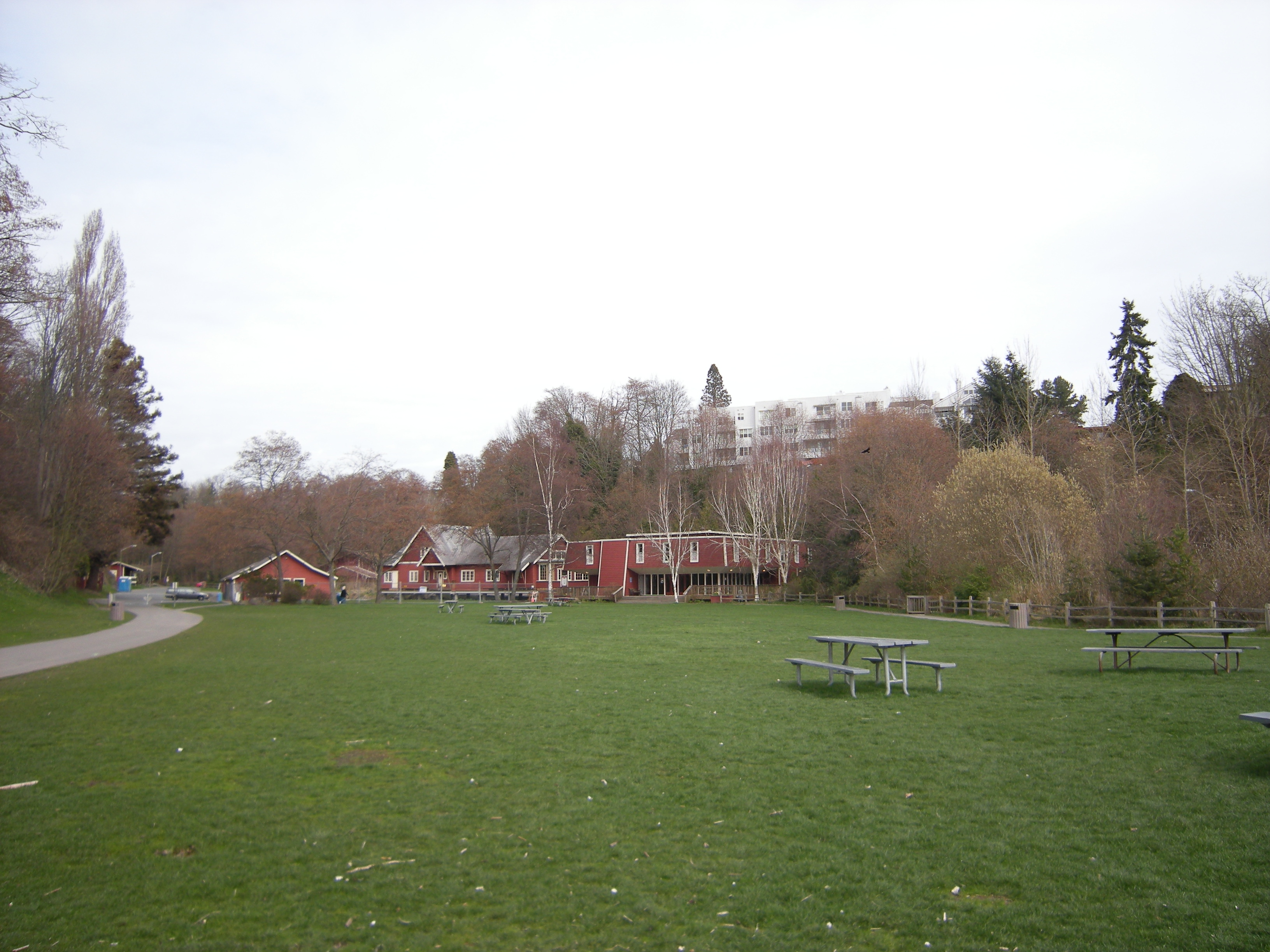 Des Moines Beach Park, Des Moines, Washington. Looking inland to the buildings of the former Covenant Beach Bible Camp, listed on the National Register of Historic Places.